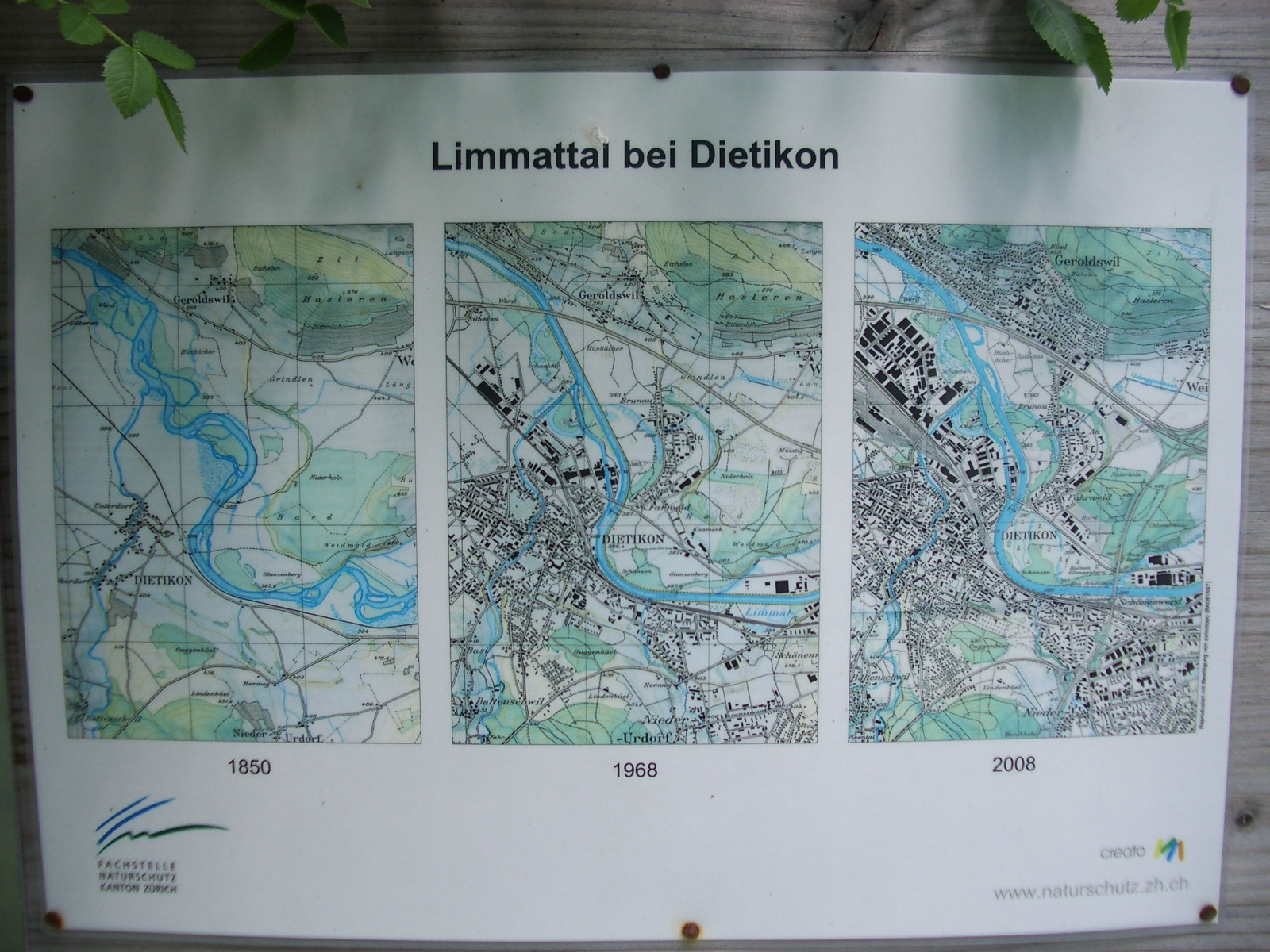 Dietikon ZH, Switzerland